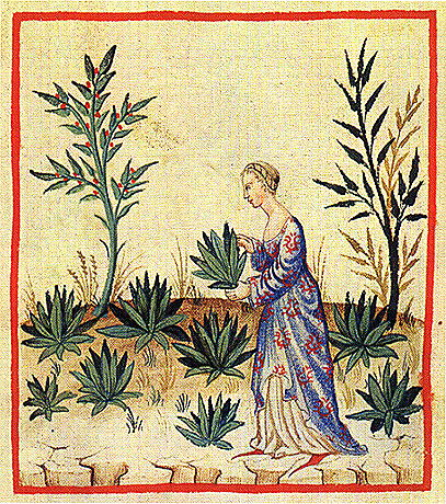 Lettuce (Lactuce) Nature: Cold and humid in the second degree. Optimum: Those with large leaves and of a lemon-yellow color. Usefulness: Relieves insomia and spermatorrhea. Dangers: It is harmful to coitus and the eyesight. Neutralization of the Dangers: By mixing it with celery. From the Tacuinum of Rouen